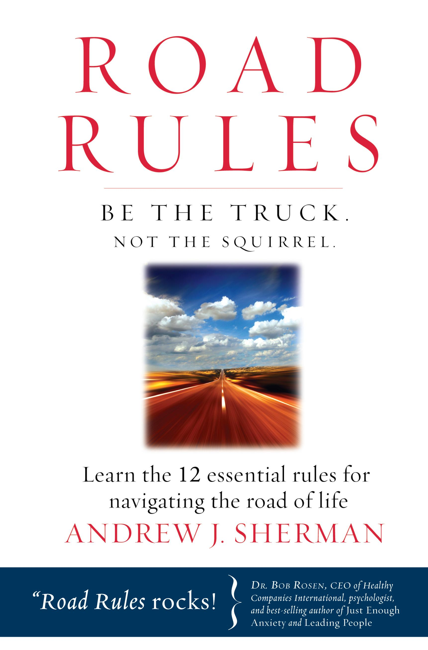 Front Cover of "Road Rules" authored by Andrew J. Sherman.